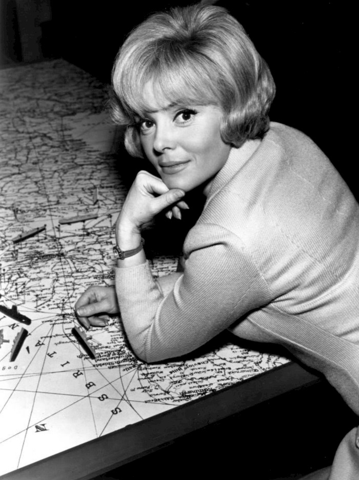 Photo of Christine Carère from the US television series Blue Light.